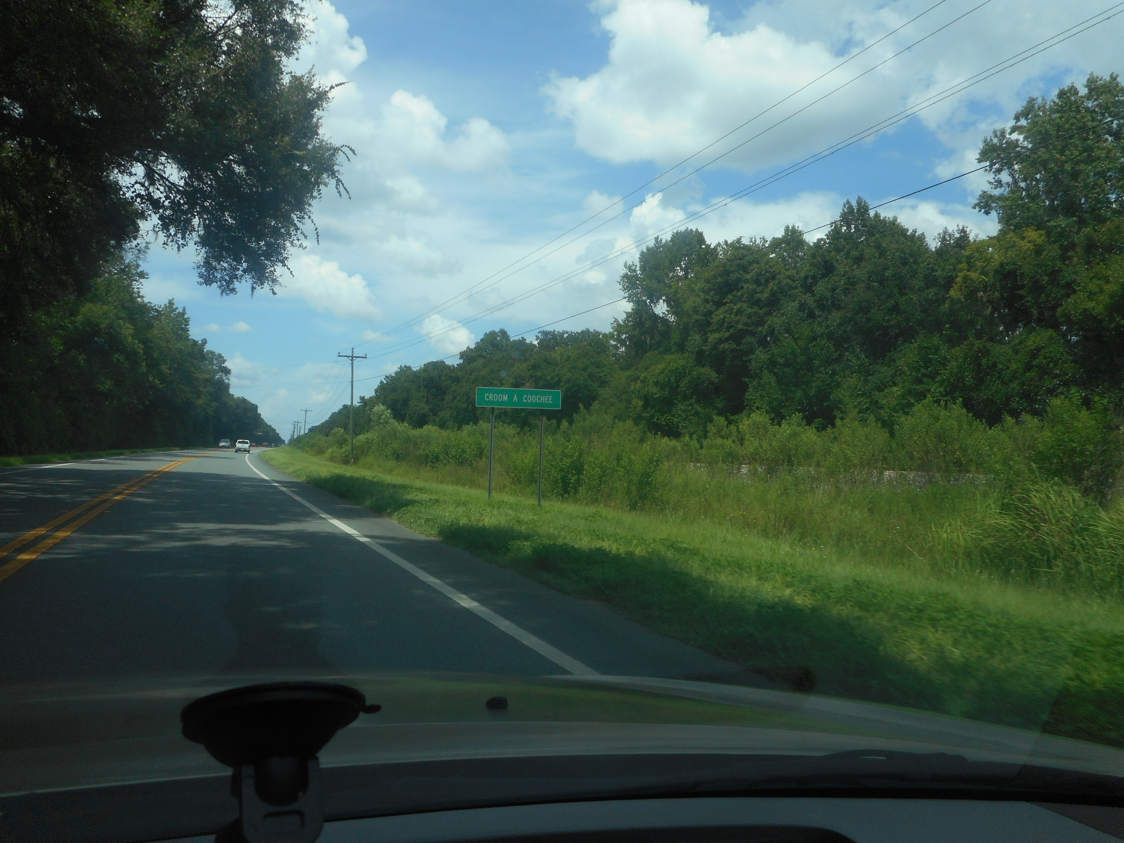 Northbound US 301 as it approaches the unincorporated community of Croom-A-Coochee, Florida. Taken from my car just as the CSX Wildwood Subdivision approaches the side of the northbound lane.